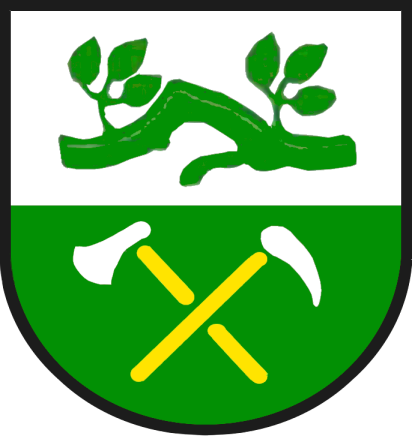 Coat of Arms of Radbruch